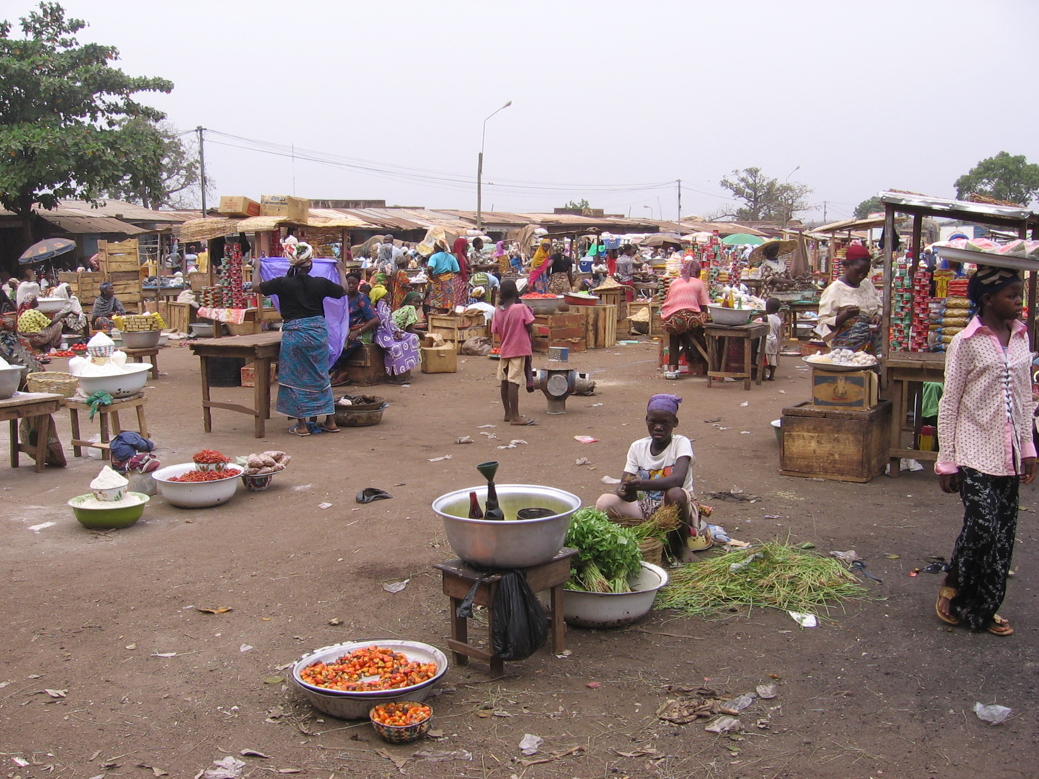 Market in Tamale, Northern Ghana. picture made by Corine 't Hart, february 2006.